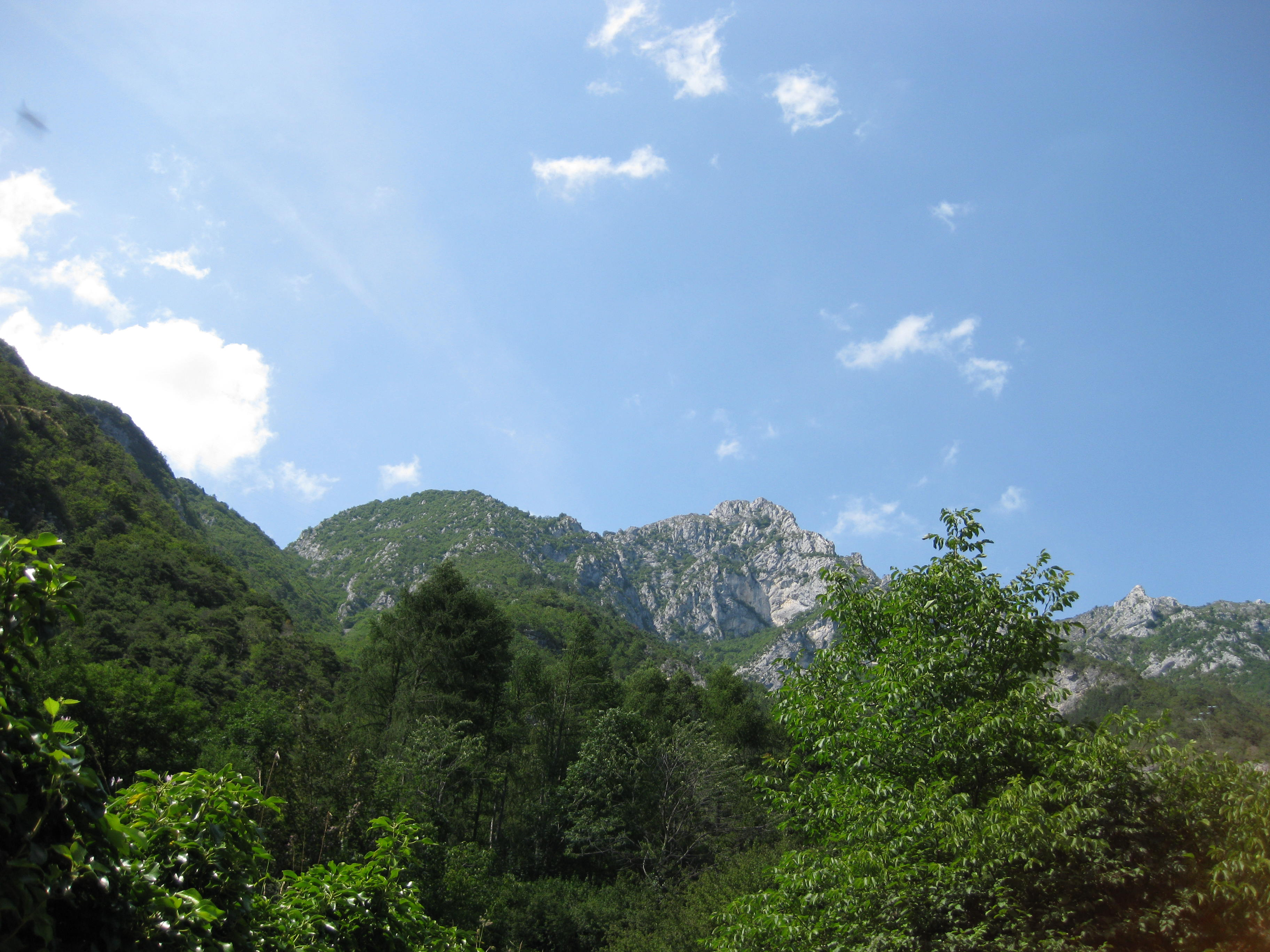 Monte Rocchetta (1575 m), mountain near the garda lake close to the city of Riva del Garda in Italy. View from the road between Biacesa di Ledro and Bochet dei Concoli.